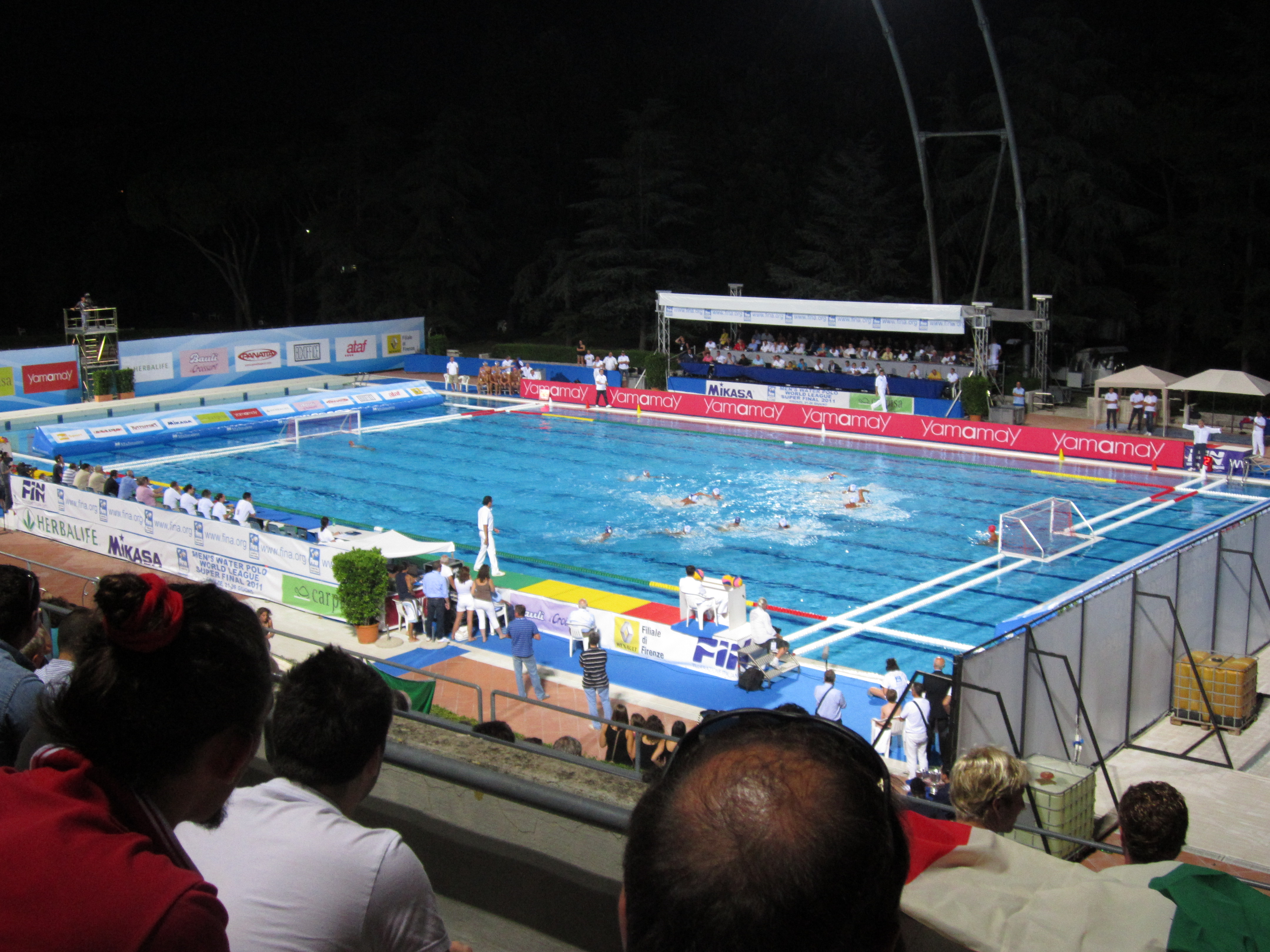 Fina Men's Water Polo World League Super Final 21 - 26 June 2011